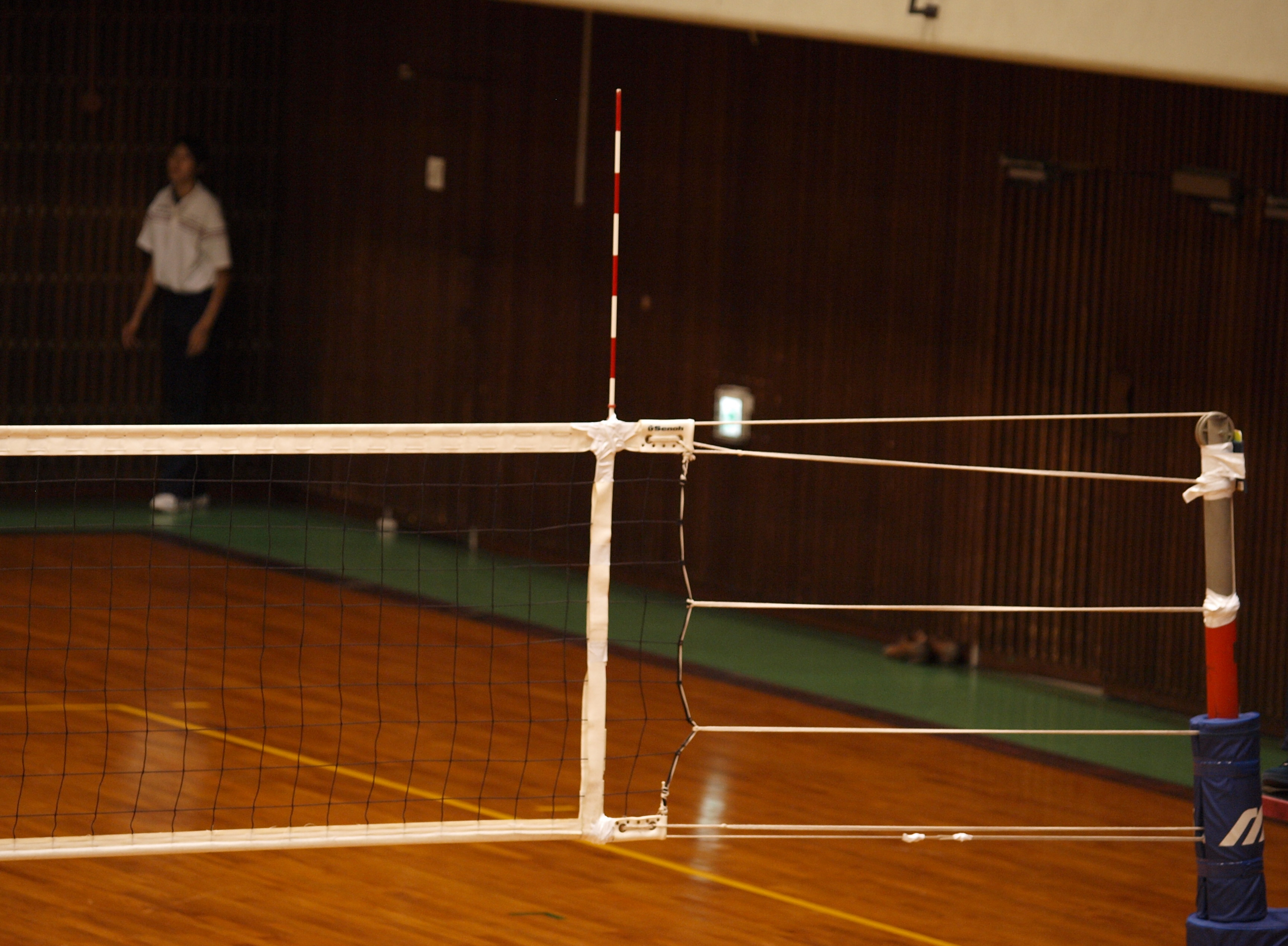 Antenna of volleyball